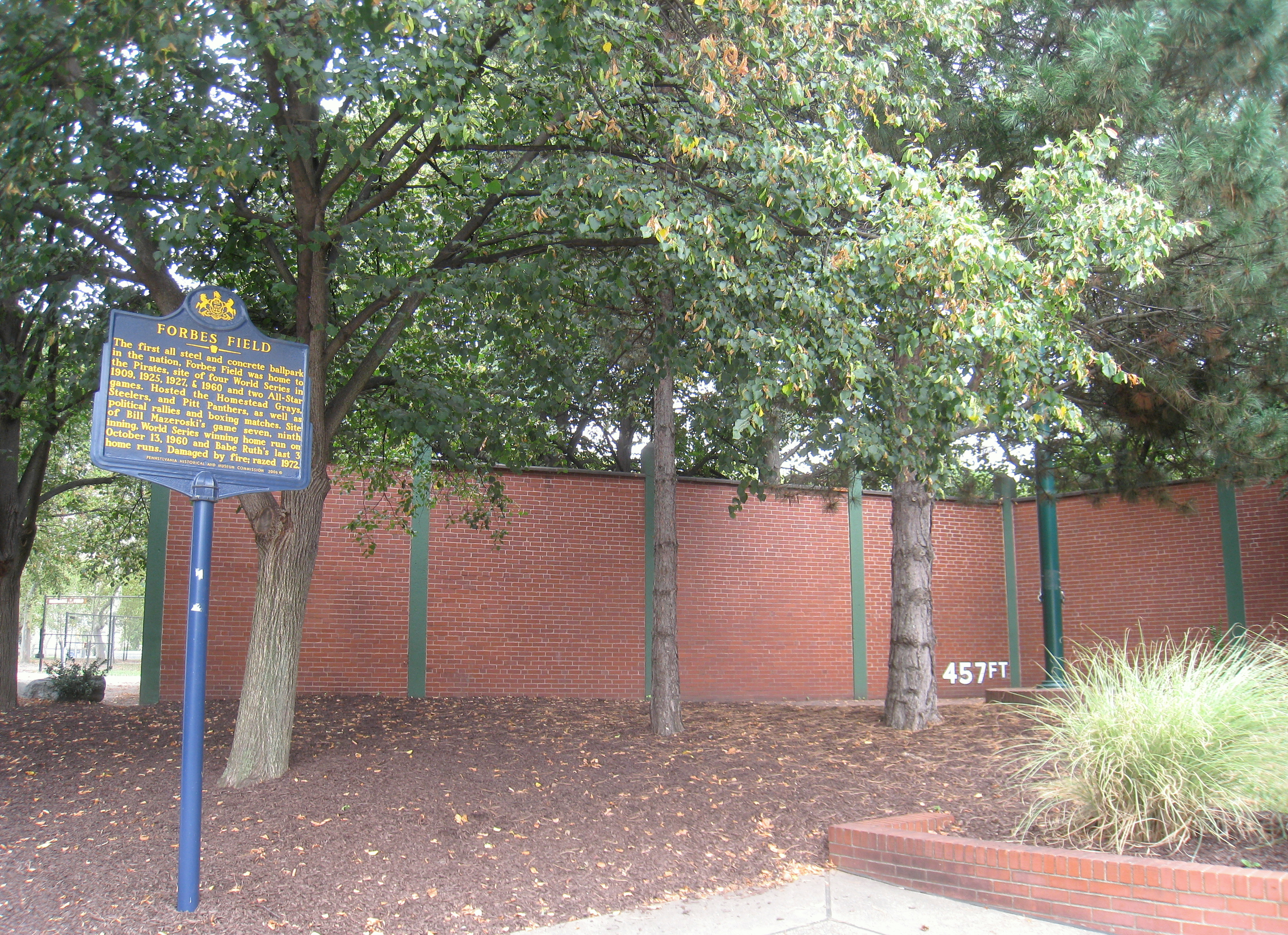 Forbes Field monument, University of Pittsburgh, Pittsburgh, Pennsylvania, USA.